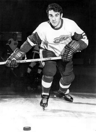 Photo of Serge Lajeunesse as a member of the Detroit Red Wings.